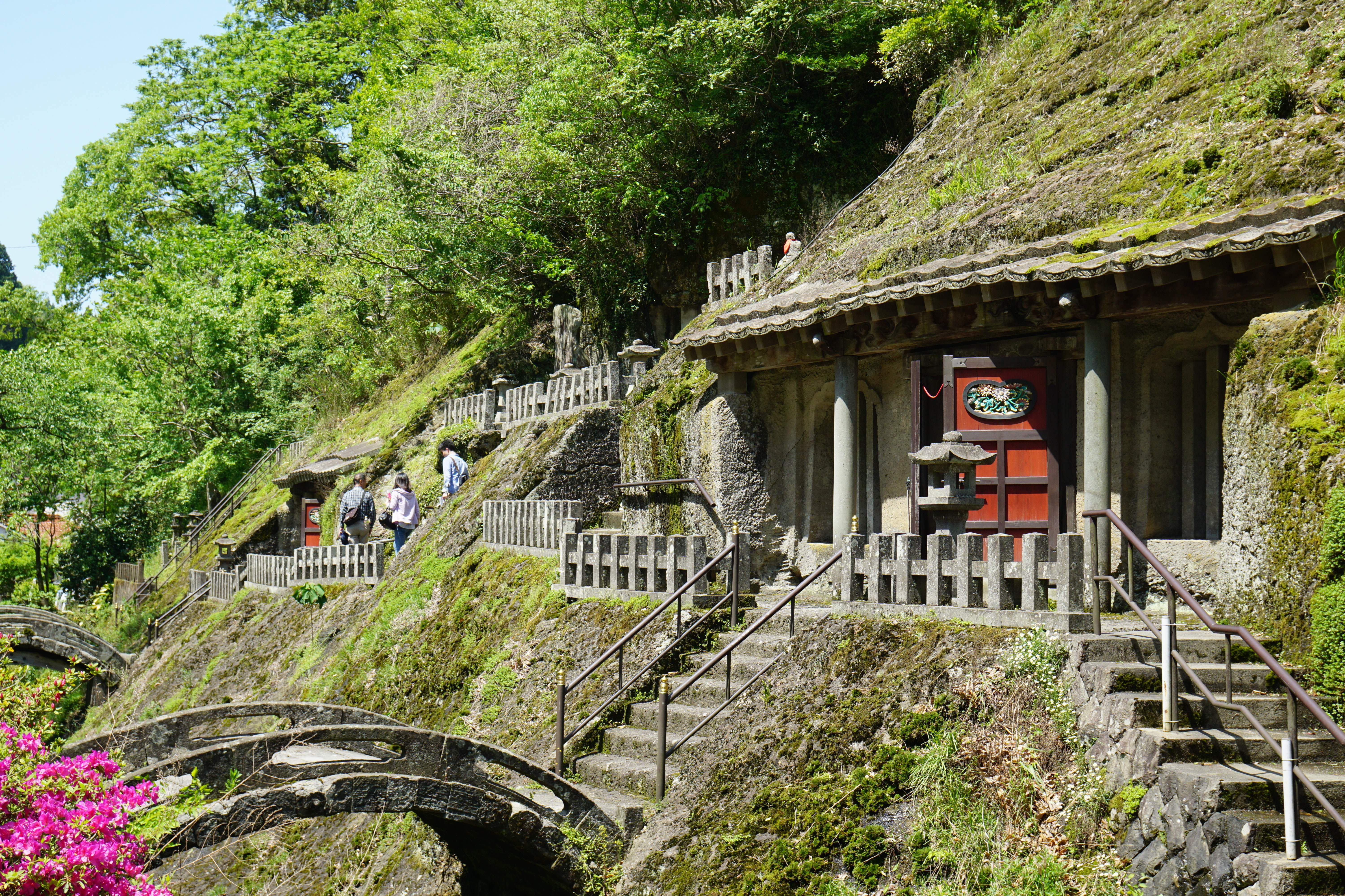 Rakan-ji in Ōda, Shimane prefecture, Japan. It was registered as part of the UNESCO World Heritage Site "Iwami Ginzan Silver Mine and its Cultural Landscape".